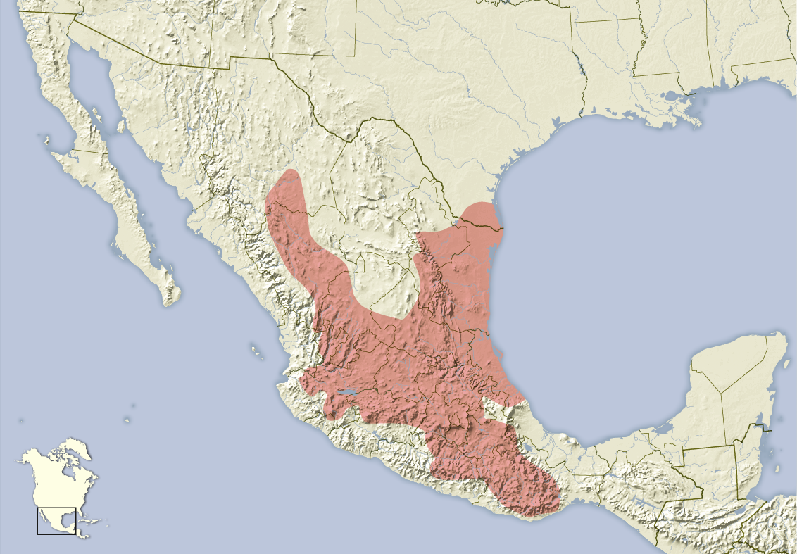 Distribution map of the Mexican spiny pocket mouse